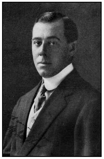 Famous golf course architect A. W. Tillinghast in 1909, near the beginning of his design career.